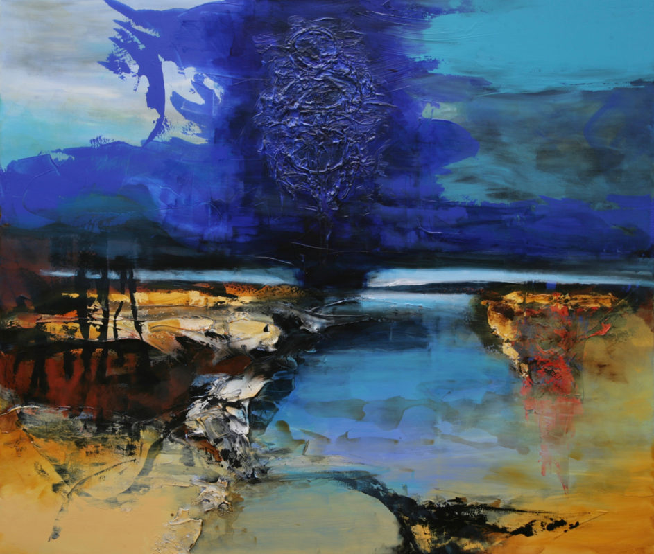 Hans van Horck - Cold Crossing